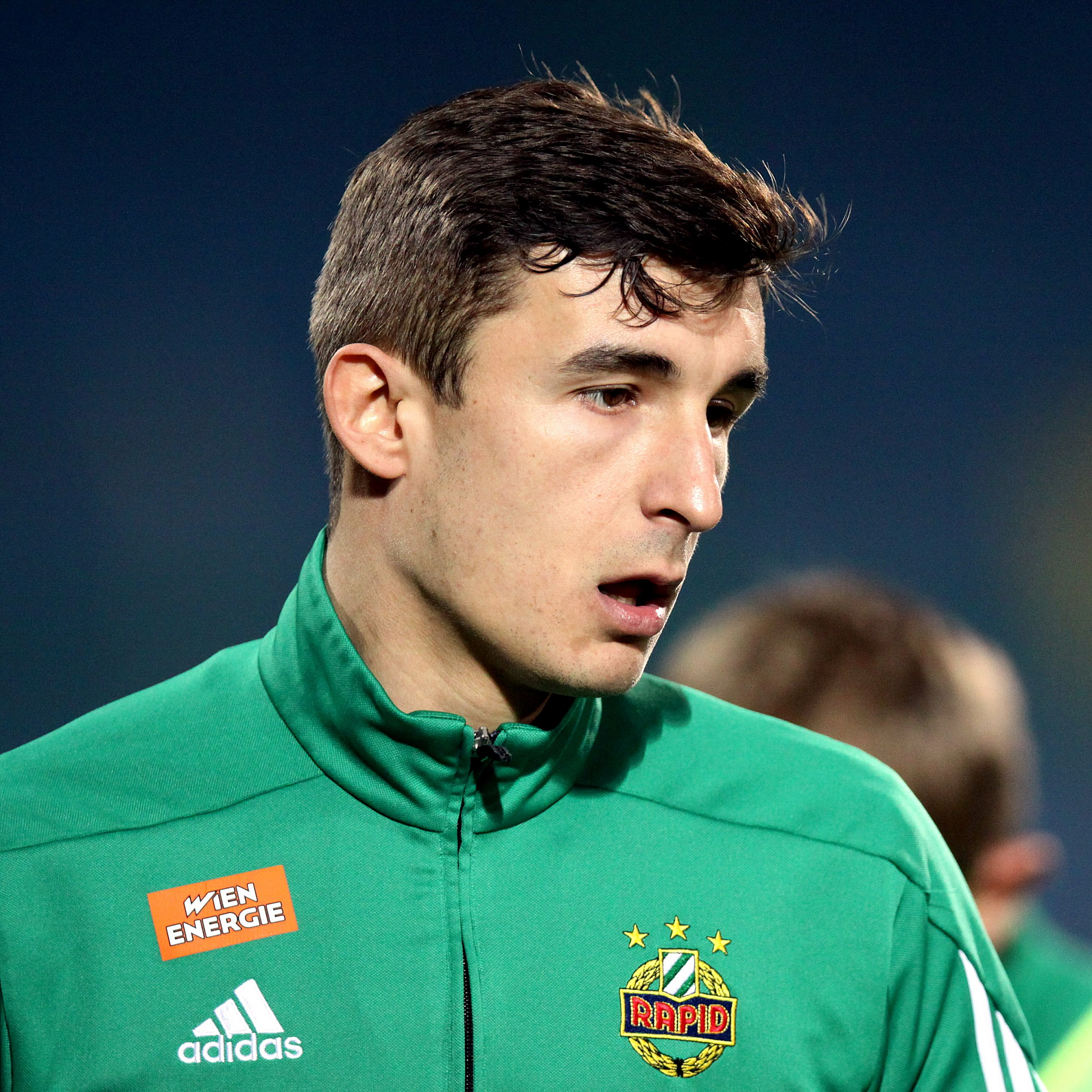 Match of the Austrian Football Bundesliga – FC Admira Wacker Mödling (red shirts) vs. SK Rapid Wien (white shirts) 2-1 (0-1) on 2015-12-02 in Bundesstadion Sudstadt – The photo shows Matej Jelić (SK Rapid Wien).